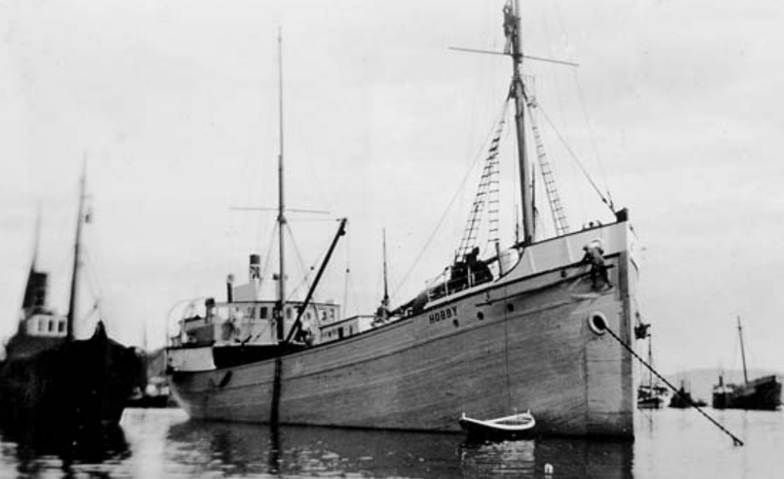 Norwegian sealing and research vessel for polar expedition, used by Roald Amundsen and Louise Boyd in the 1920s. Pictured in the Tromsø harbour in 1928 (when she underwent a major restoration).